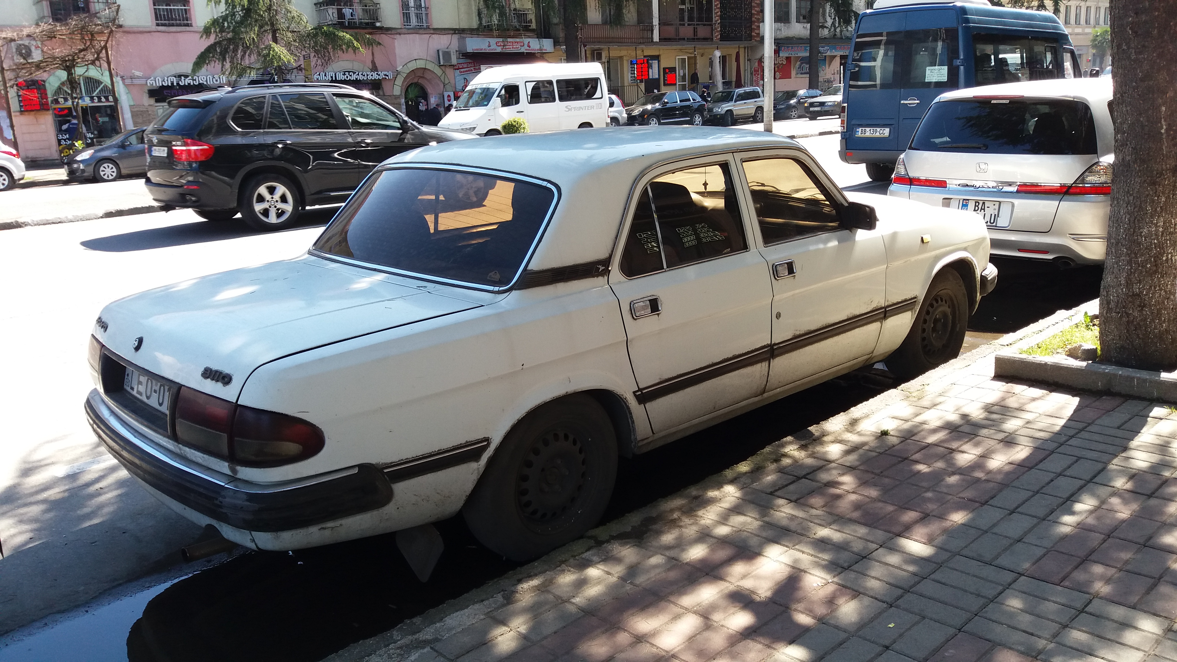 Volga 3110 in Batumi